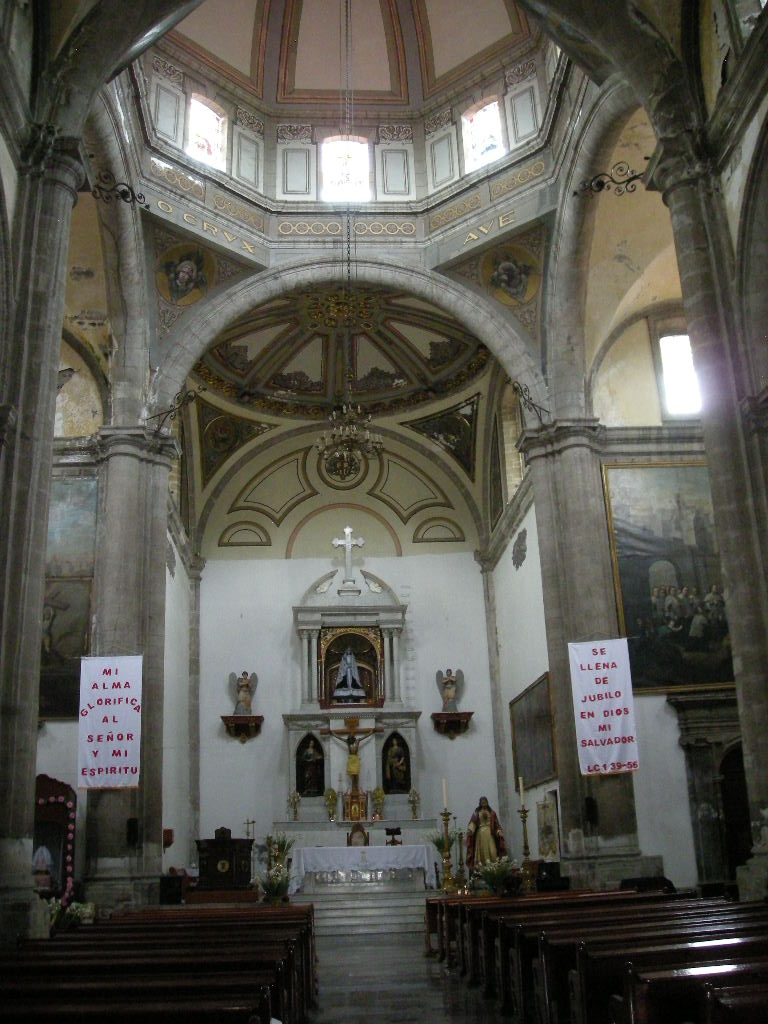 Main nave of the Parish of La Soledad in the historic center of Mexico City